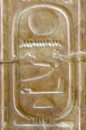 Cartouche 64, Abydos King List. Temple of Seti I, Abydos, Egypt